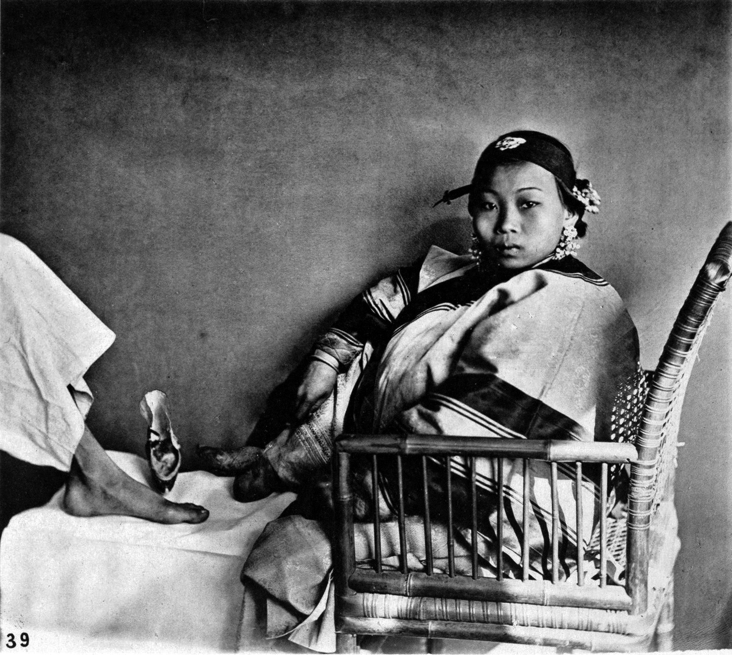 Photograph by John Thomson. See detail on the Wikisource link below.